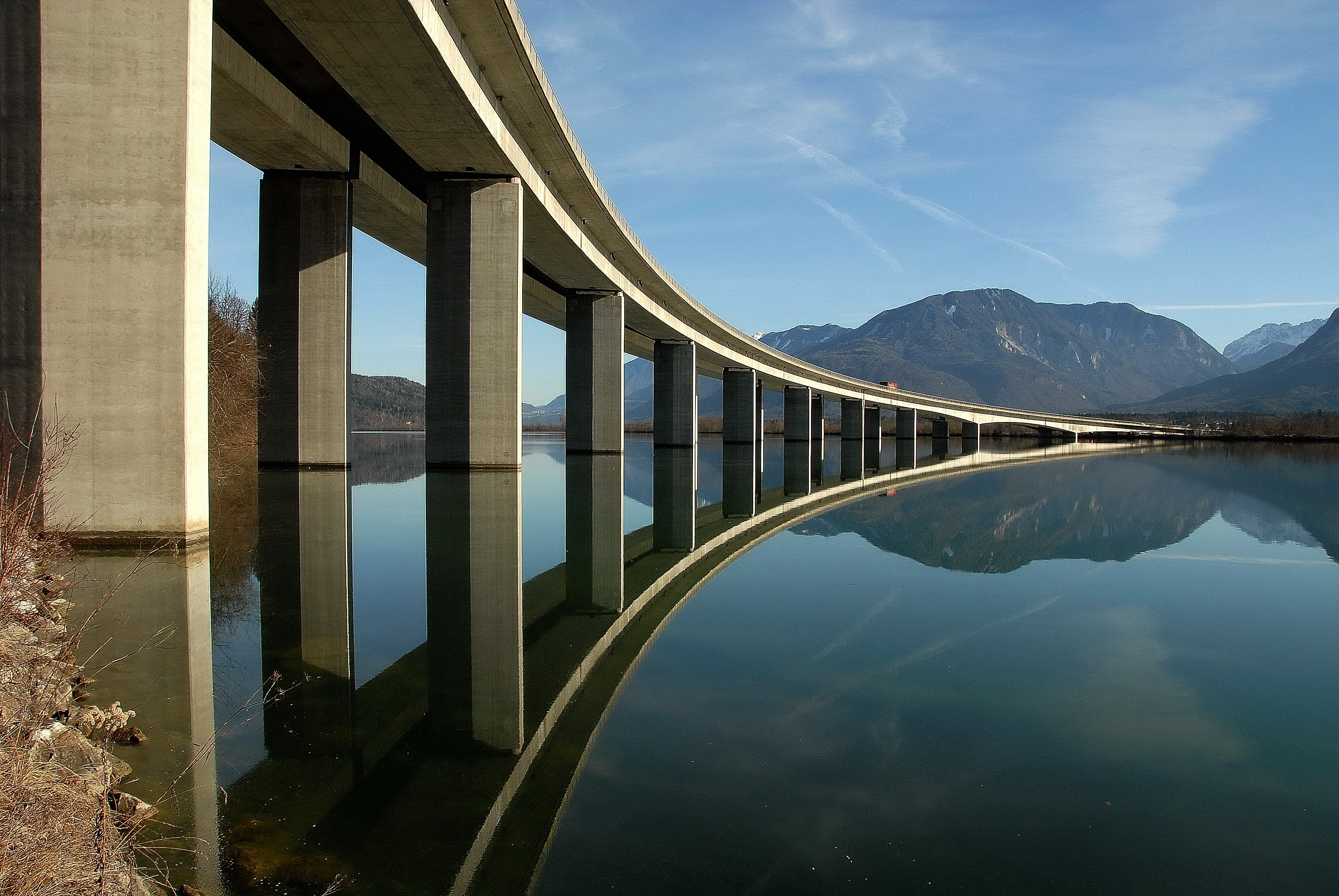 Road bridge of the Loiblpass street B91 across the river Drau near the castle Hollenburg and close to the village Strau, community Ferlach, Carinthia, Austria View to south-east to the mountain Matzen 1627m right of it the pass Hansenruhe 1356m and (small) Jauernikgupf 1690m. In the Background Terklturm 1798m and Freiberg/Setitsche 1923m